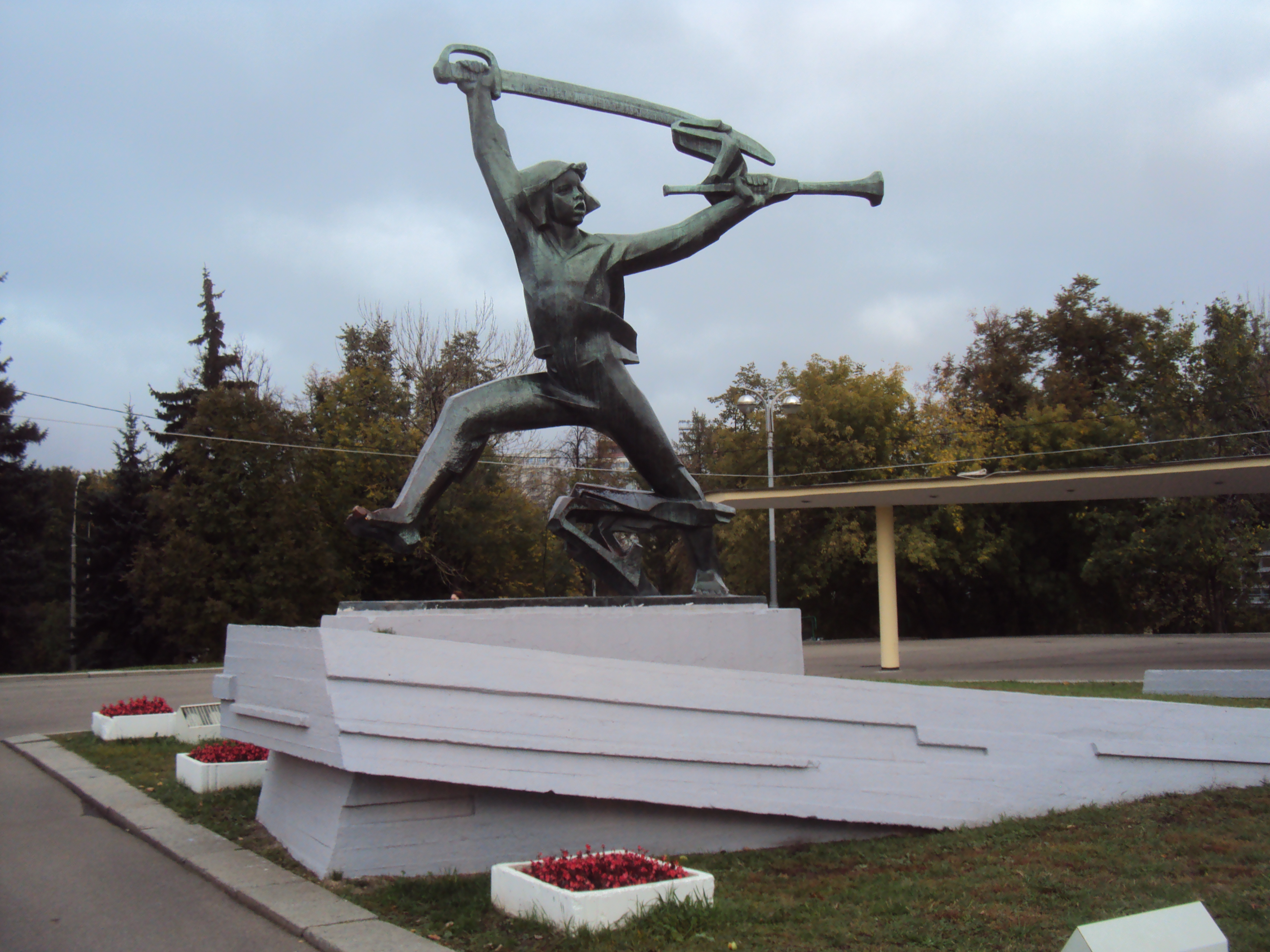 "Malchish-Kibalchish" - sculpture